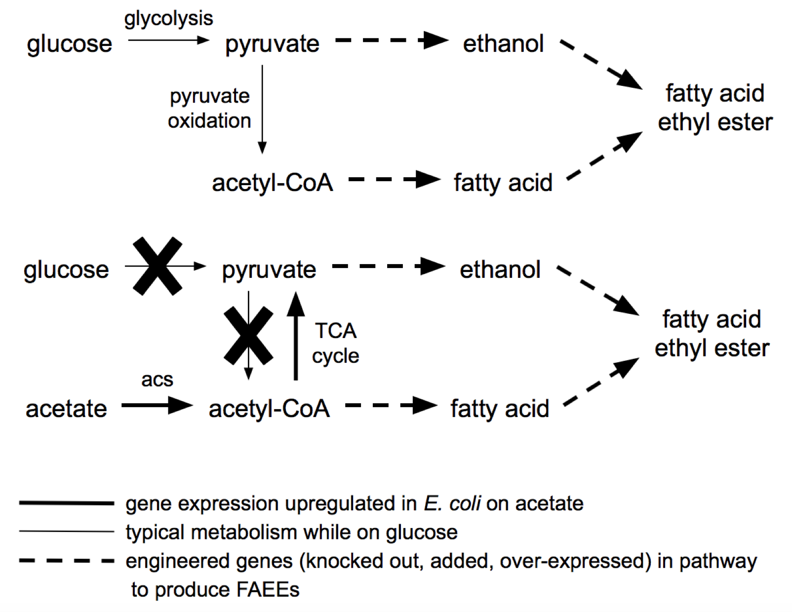 metabolic pathway for synthesis of faee from acetate